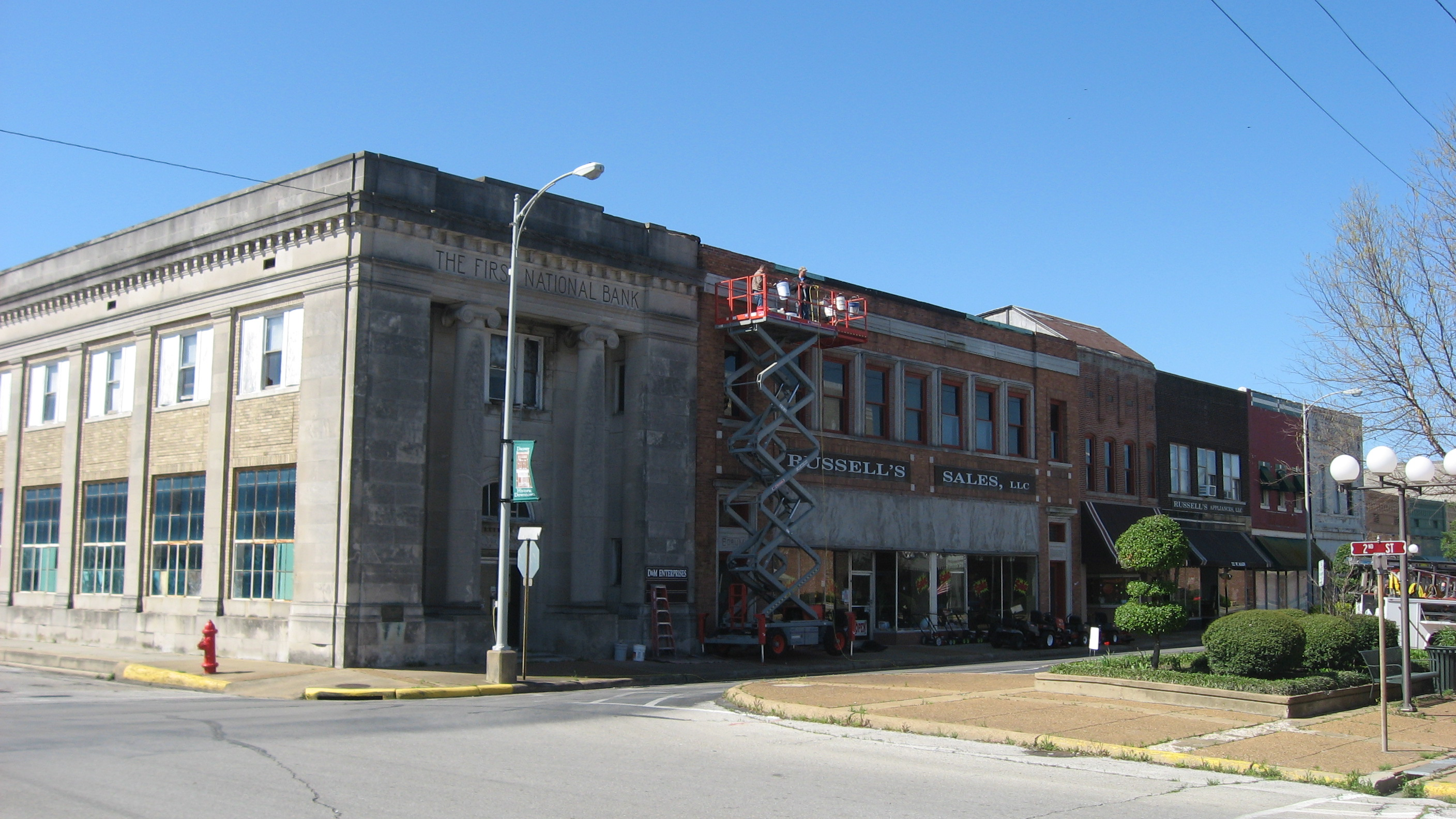 Buildings on the southern side of Main Street (Highways 18 and 151) west of Second Street in downtown Blytheville, Arkansas, United States. This block is part of the Blytheville Commercial Historic District, a historic district that is listed on the National Register of Historic Places.